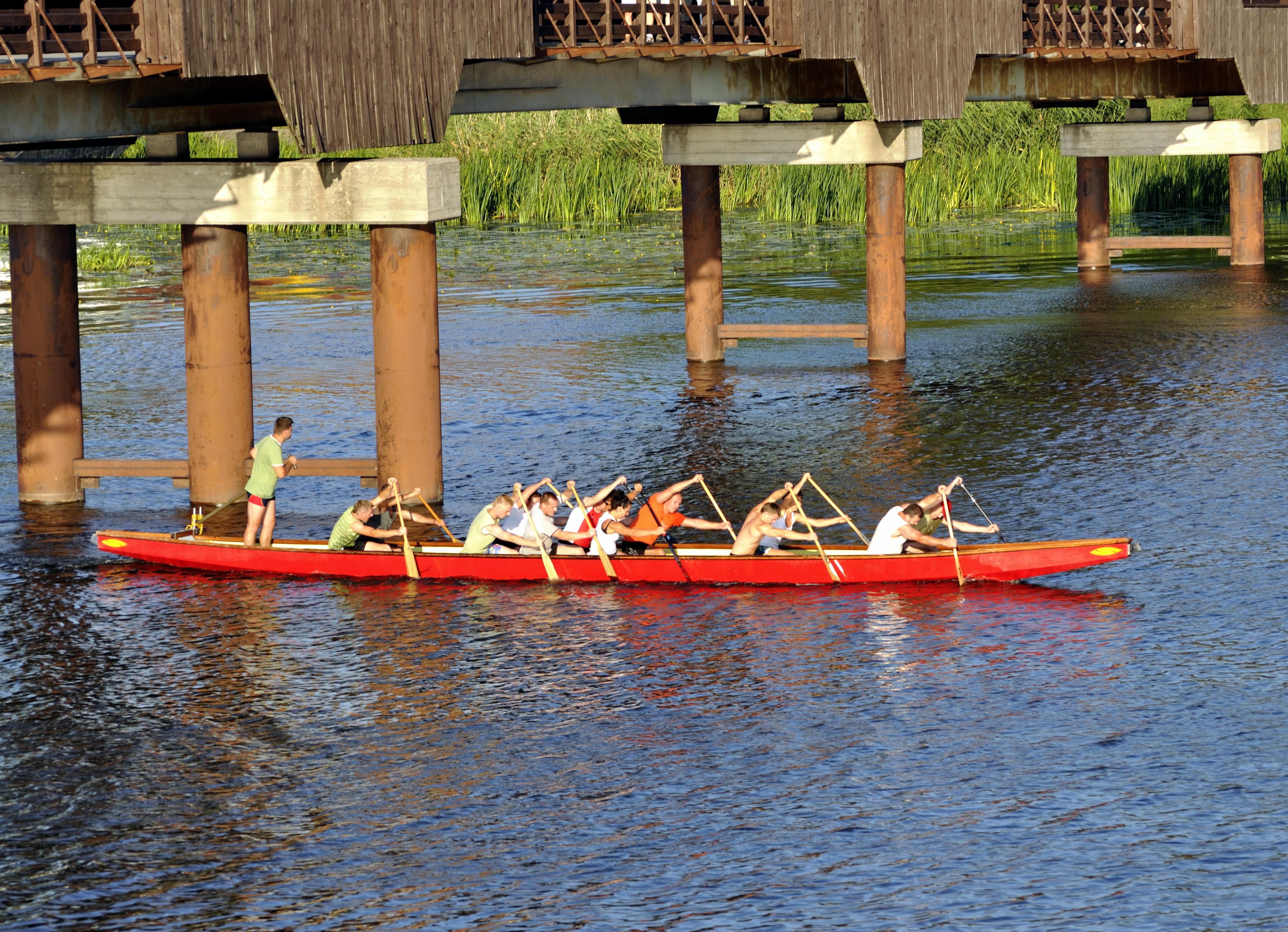 Picture taken in Malborg after Wikimania 2010 conference.